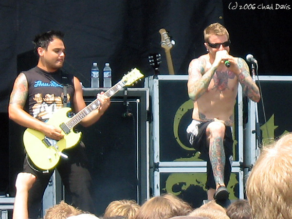 Atreyu performing at Alpine Valley Music Theatre in East Troy, WI on Ozzfest 2006